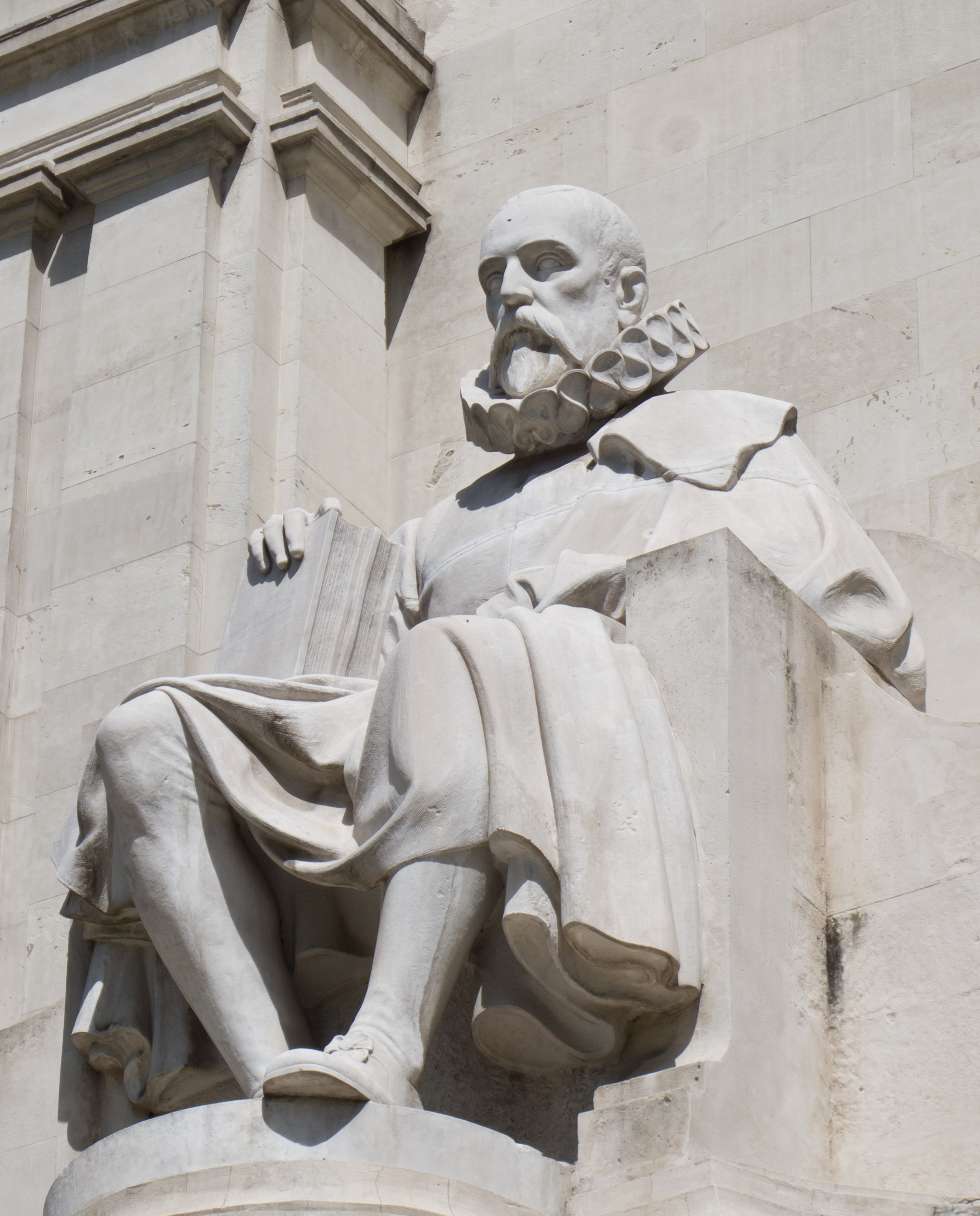 Monument to Miguel de Cervantes, Madrid.